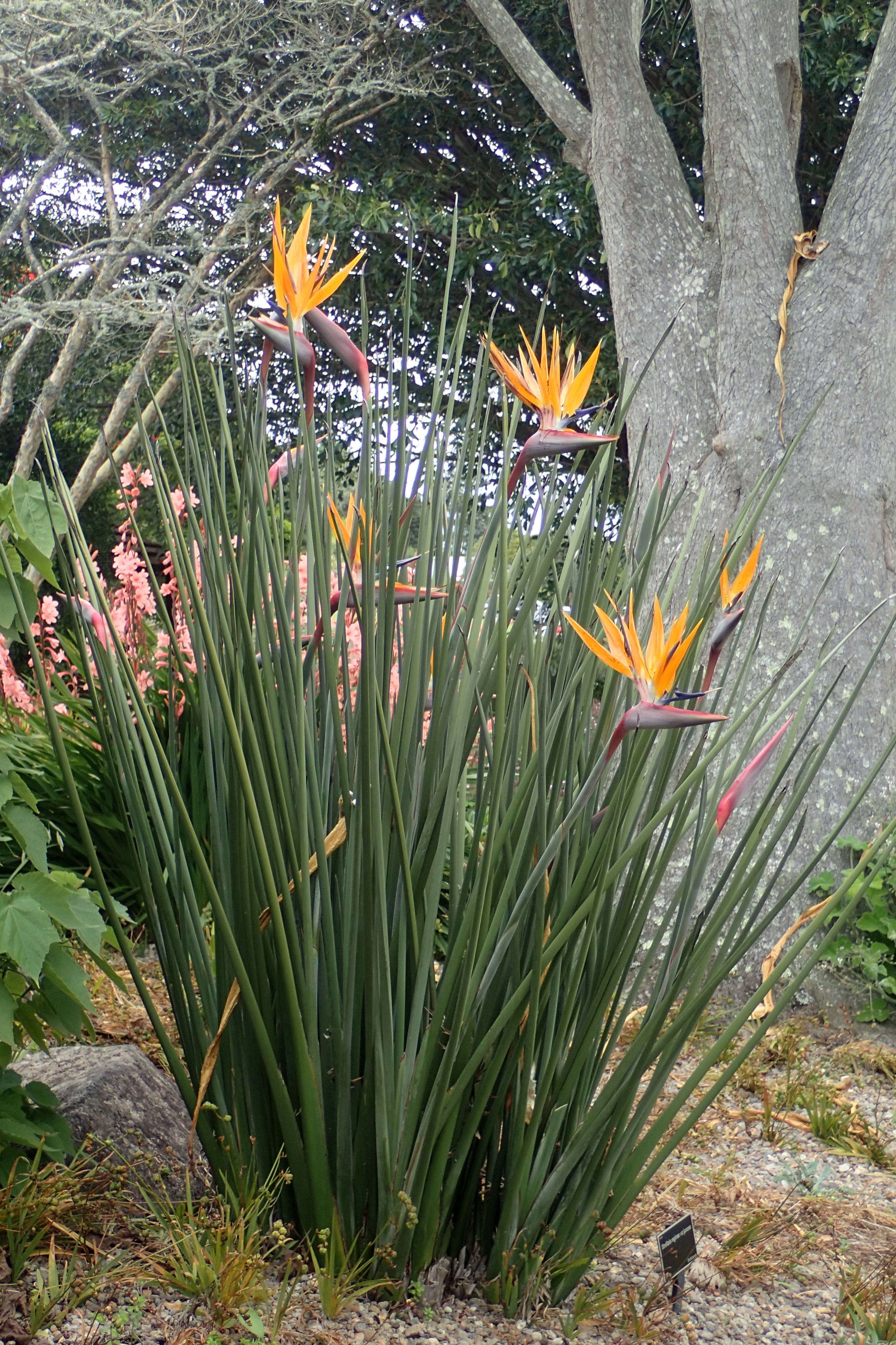 Strelitzia juncea in Auckland Botanic Gardens